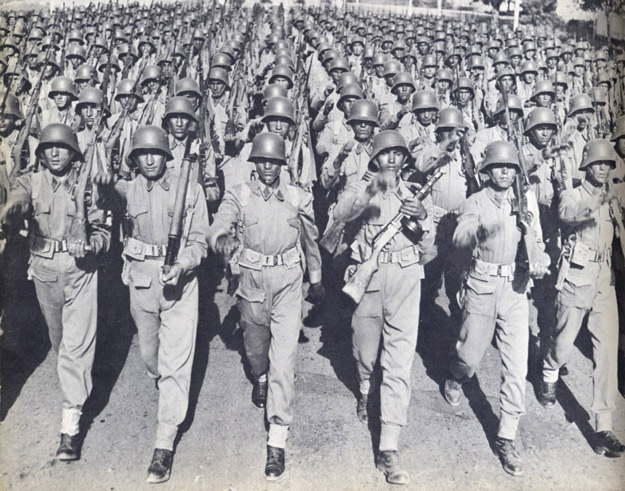 Afghan Army soldiers on parade. Original caption: "In the absence of dependable international peace, national defense plays an important role in the affairs of the nation."